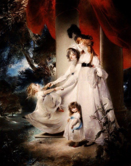 Portrait of Mrs Ayscoghe Boucherett with her two Eldest children Emilia and Ay scoghe, and her half-sister Juliana Angerstein, later Madame Sablokoff, in a garden